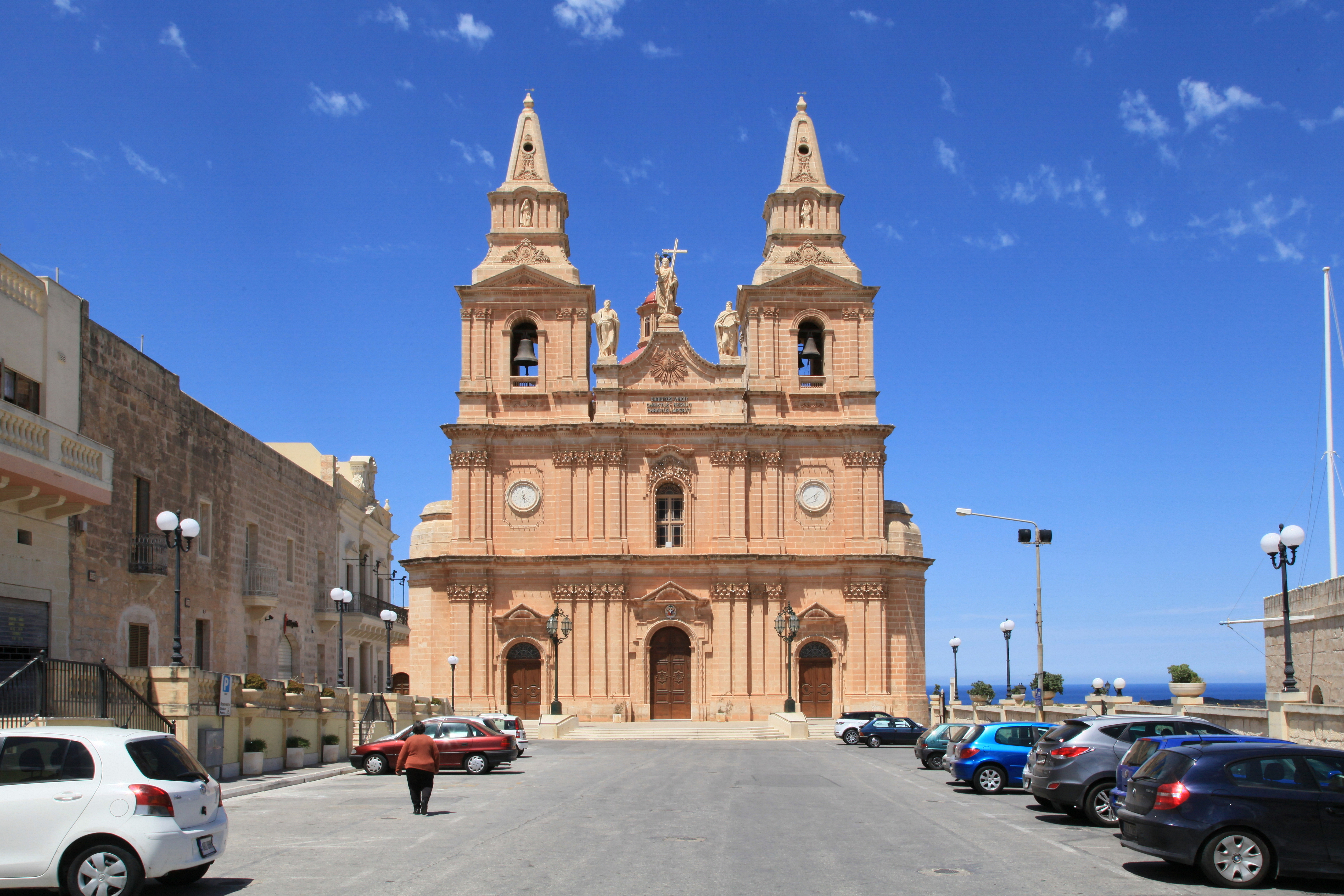 Mellieħa Parish Church and Misraħ il-Parroċċa in Mellieħa